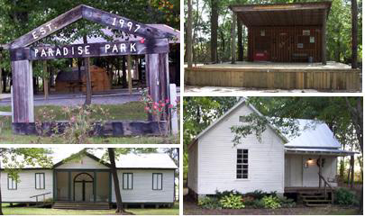 A montage of attractions at Paradise Park in Powderly, Kentucky